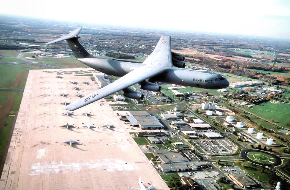 USAF C-141 Starlifter 64-6016, 438th Military Airlift Wing, 1990s